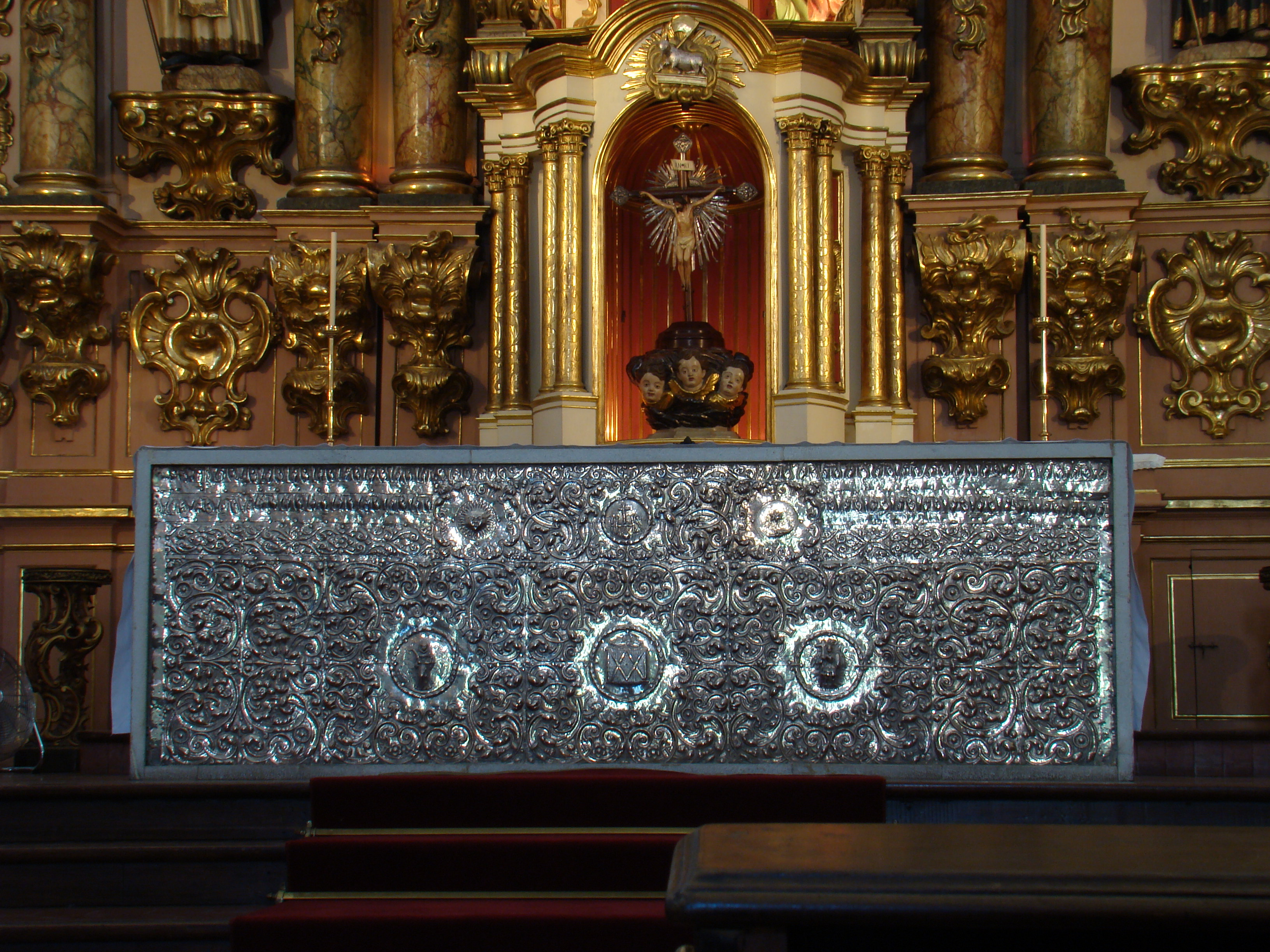 Buenos Aires. Church of Nuestra Señora del Pilar in the suburb of Recoleta. Main altar made in engraved silver from Peru.